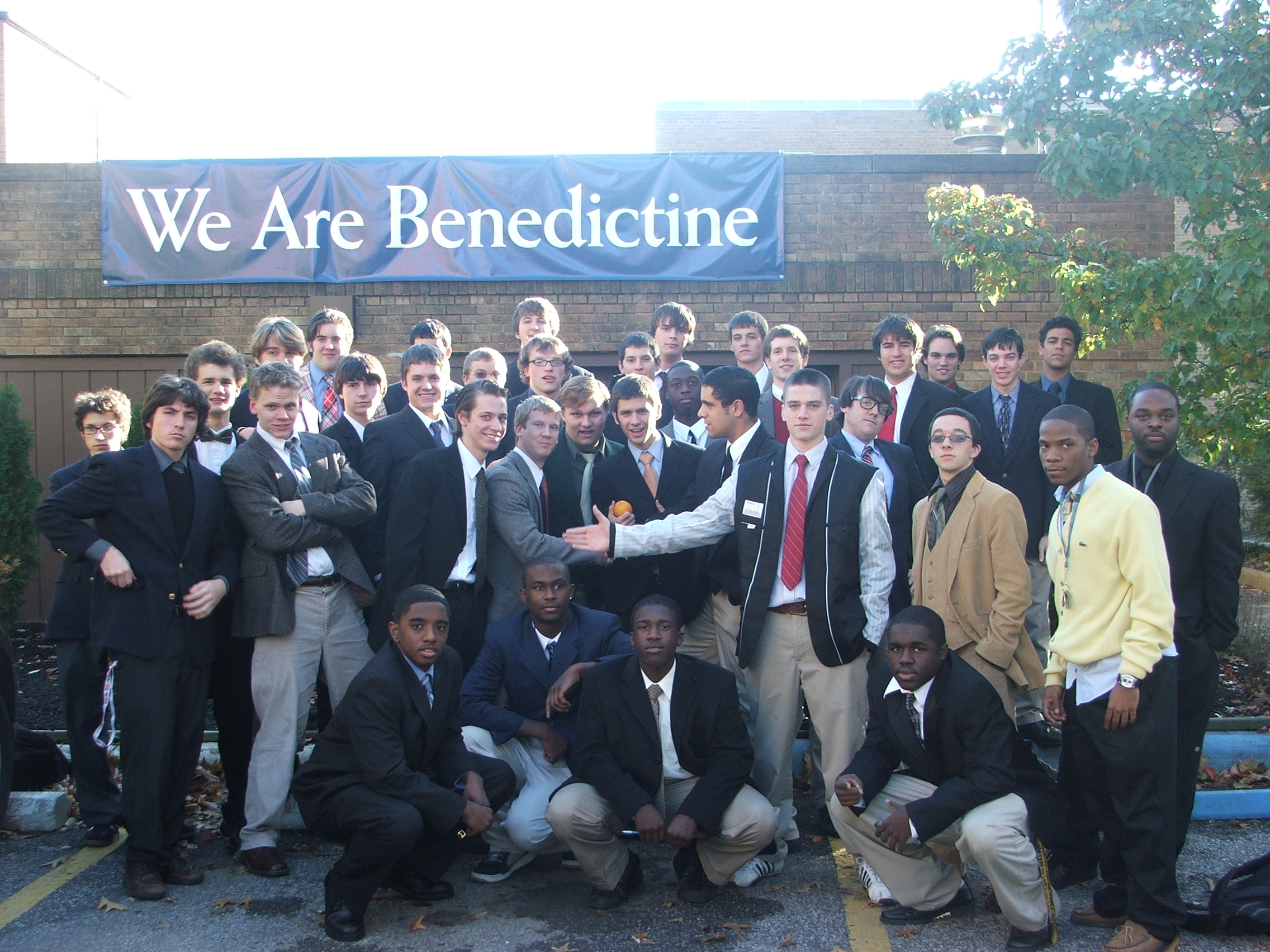 bene men